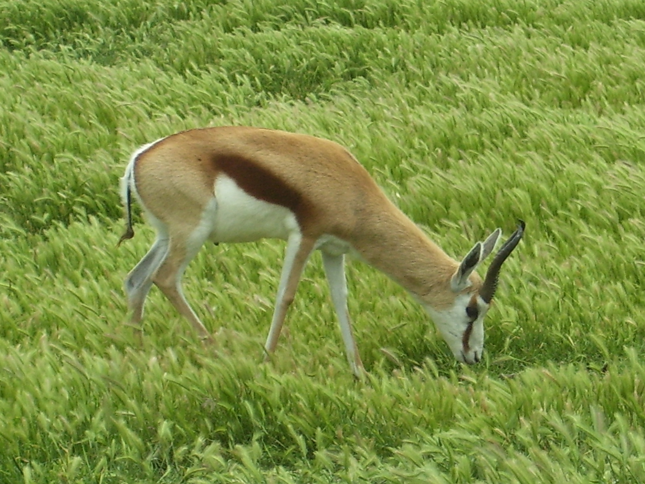 Springbok in African reservation of Sigean (France).